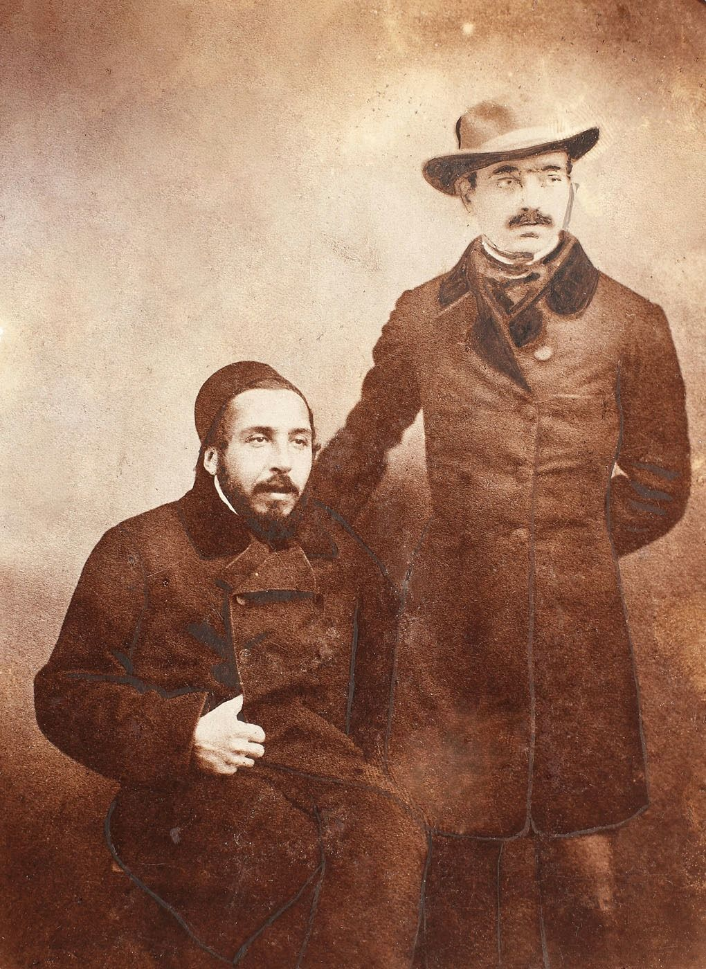 Photograph of the Romanian writer-revolutionaries Ion Ghica and Vasile Alecandri (Ghica is seated on the left)